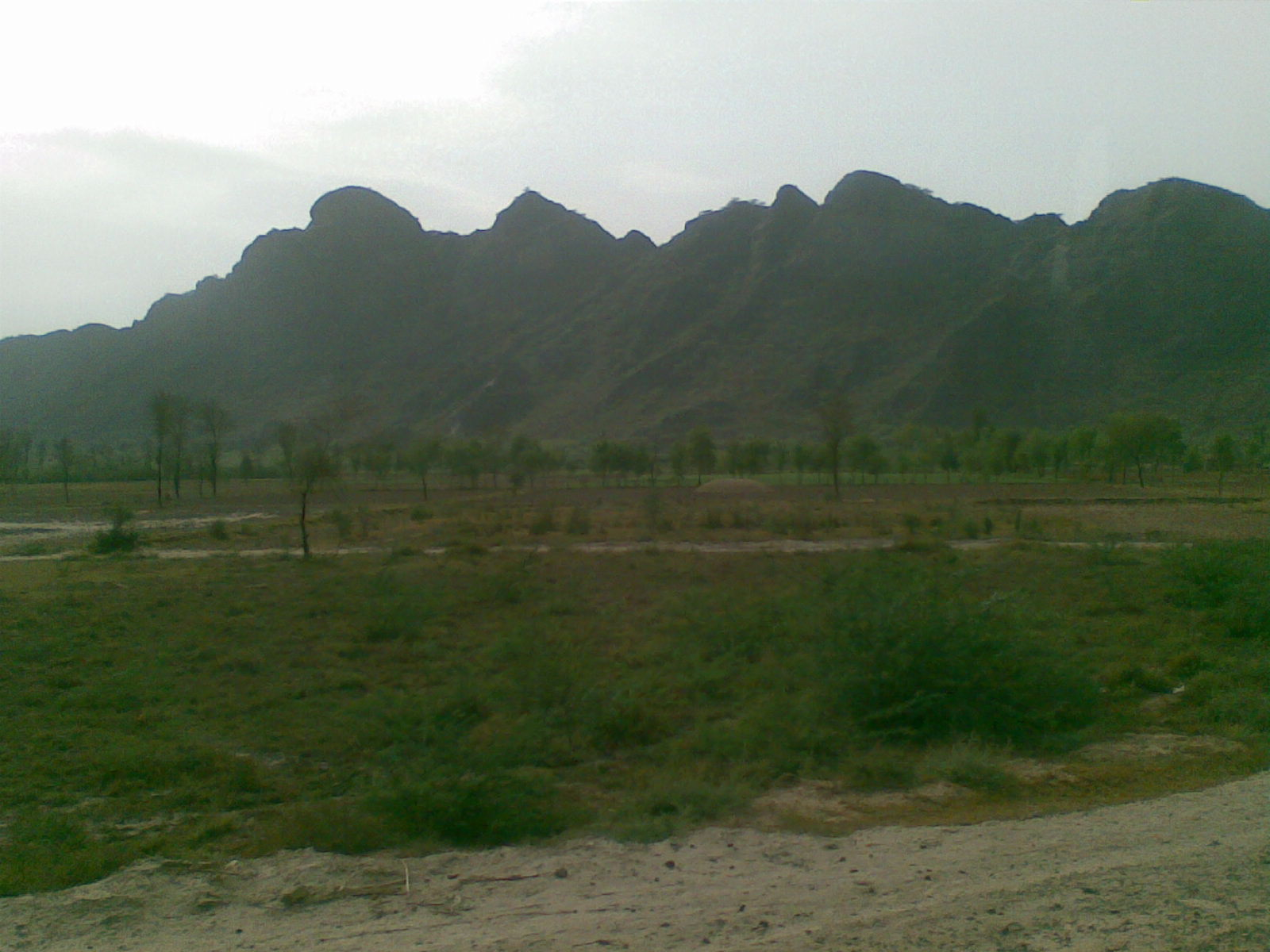 A kiranage range view nearby Pull 11 area of Sargodha on Sargodha Faisalabad Highway I took this snapshot while traveling in vehicle.